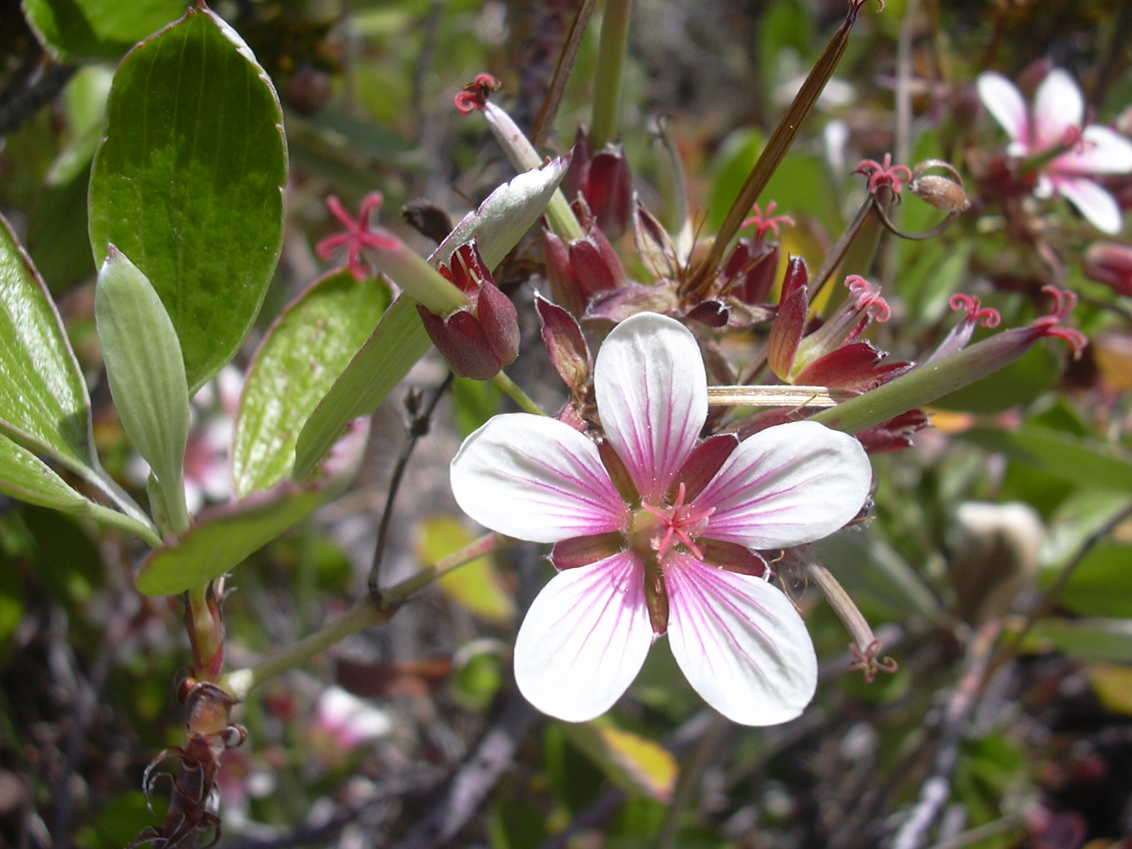 Geranium multiflorum (flowers). Location: Maui, Waikau trail Haleakala National Park